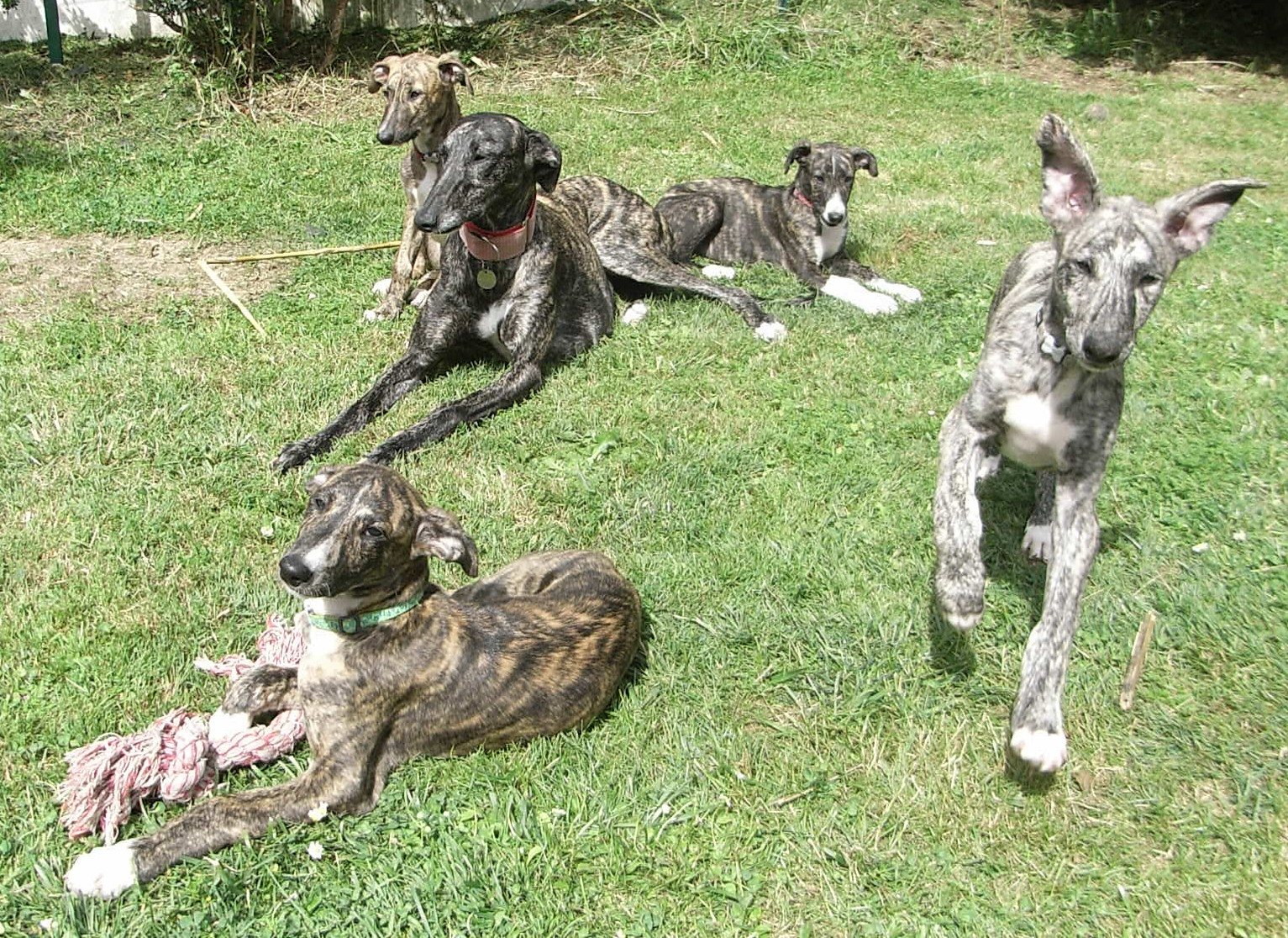 Galga (female Galgo Español) and her 4 puppies (galguitos and galguitas) aged 10 weeks.